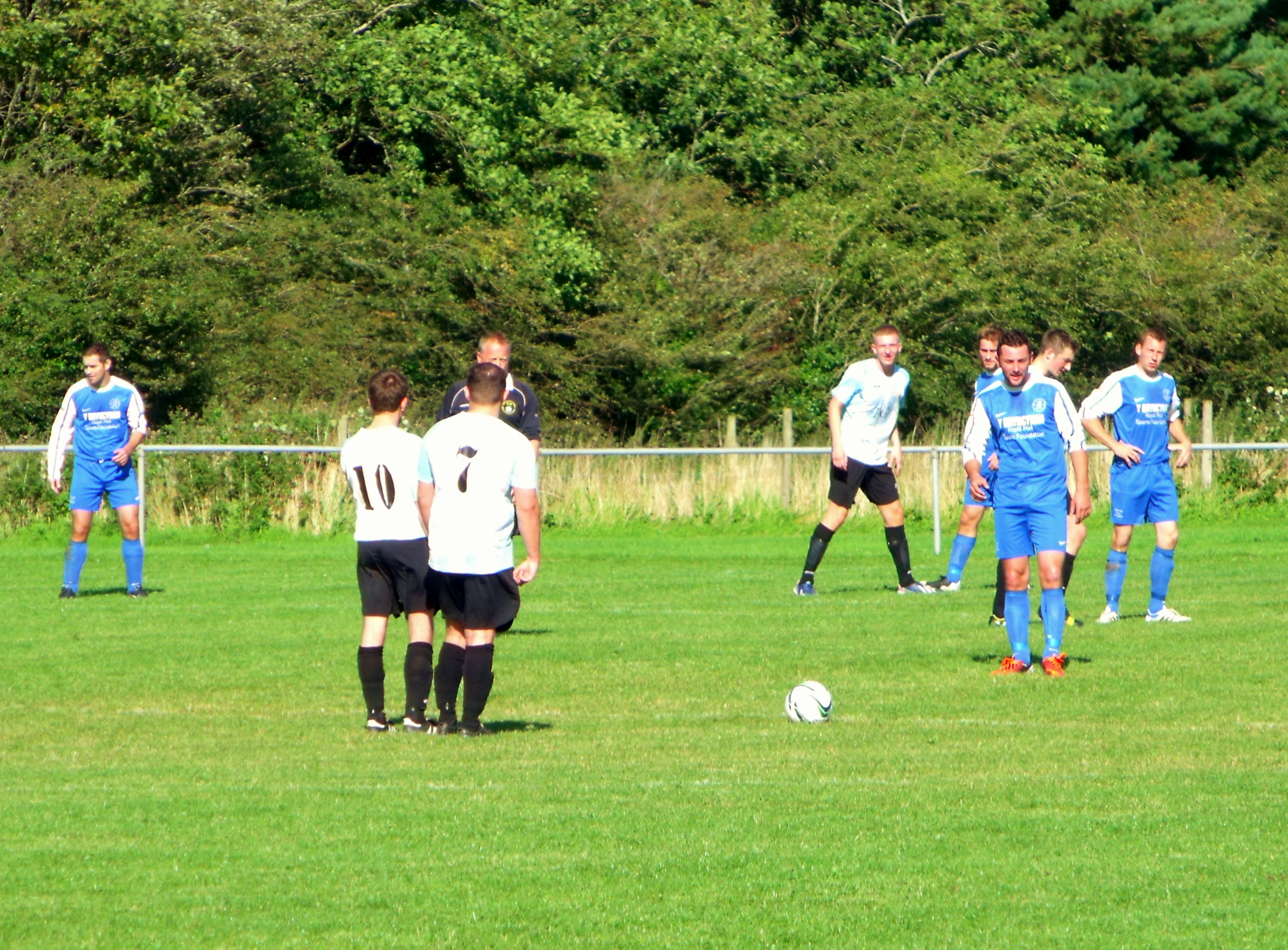 Llanfairpwll are in the 'Argentina' colours of pale blue and white stripes.